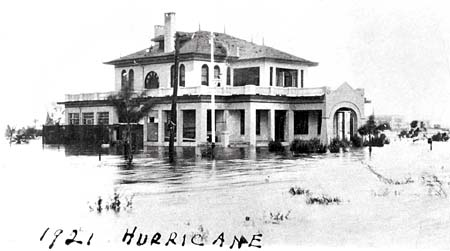 Flooding at the St. Petersburg Yacht Club after the 1921 hurricane